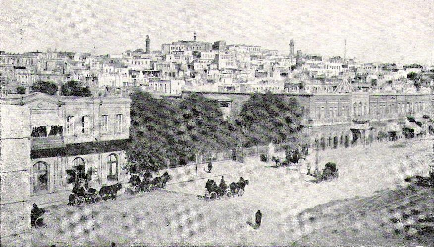 Baku. Alexander II Street